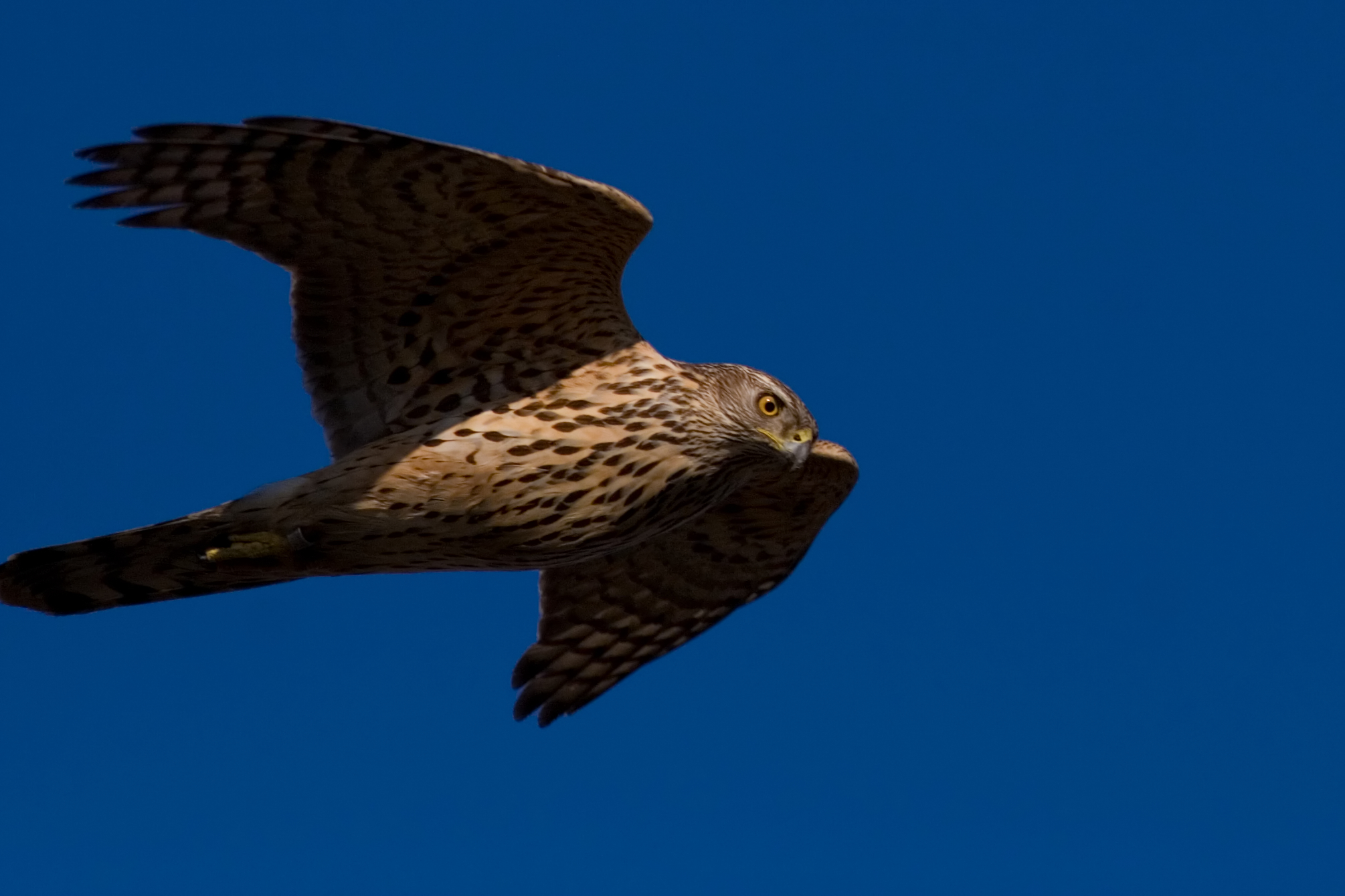 Juvenile Accipiter gentilis (Goshawk) in flight. Photographed at Vanhankaupunginlahti, Helsinki, Finland. The location is listed in Ramsar "List of Wetlands of International Importance". Geographic location of the bird (N):23116 (E):52150. When photographed, this bird was flying fast among flocks of other birds, probaply chasing them. Notice that the bird has identification ring. Thanks for MPF for verifying identification.